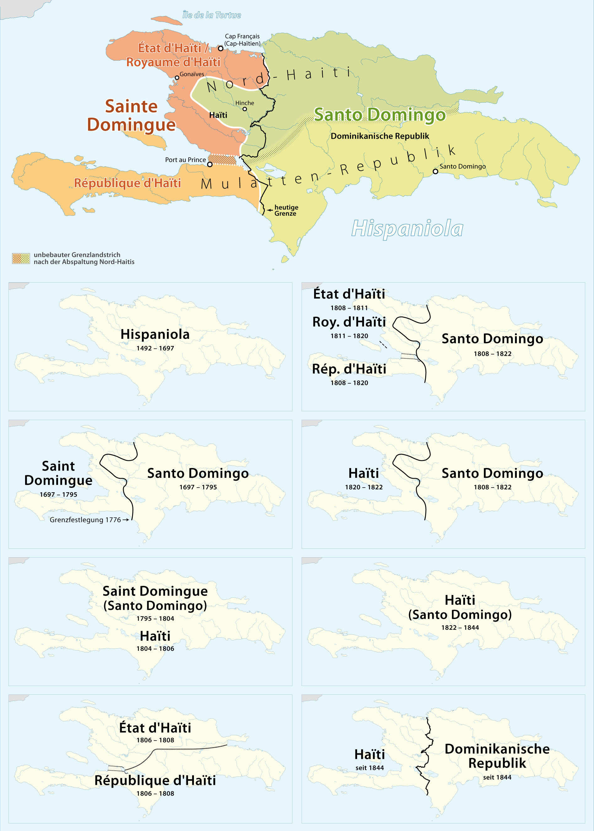 History of the teritorial changes of Haiti (Island of Hispaniola)